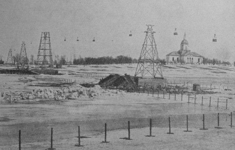 Elevated cable line for mail between Tornio and Haparanda was built in 1916–1917 during the First World War. It was torn down in 1919 when the railway bridge completed. Alatornio church in the background.